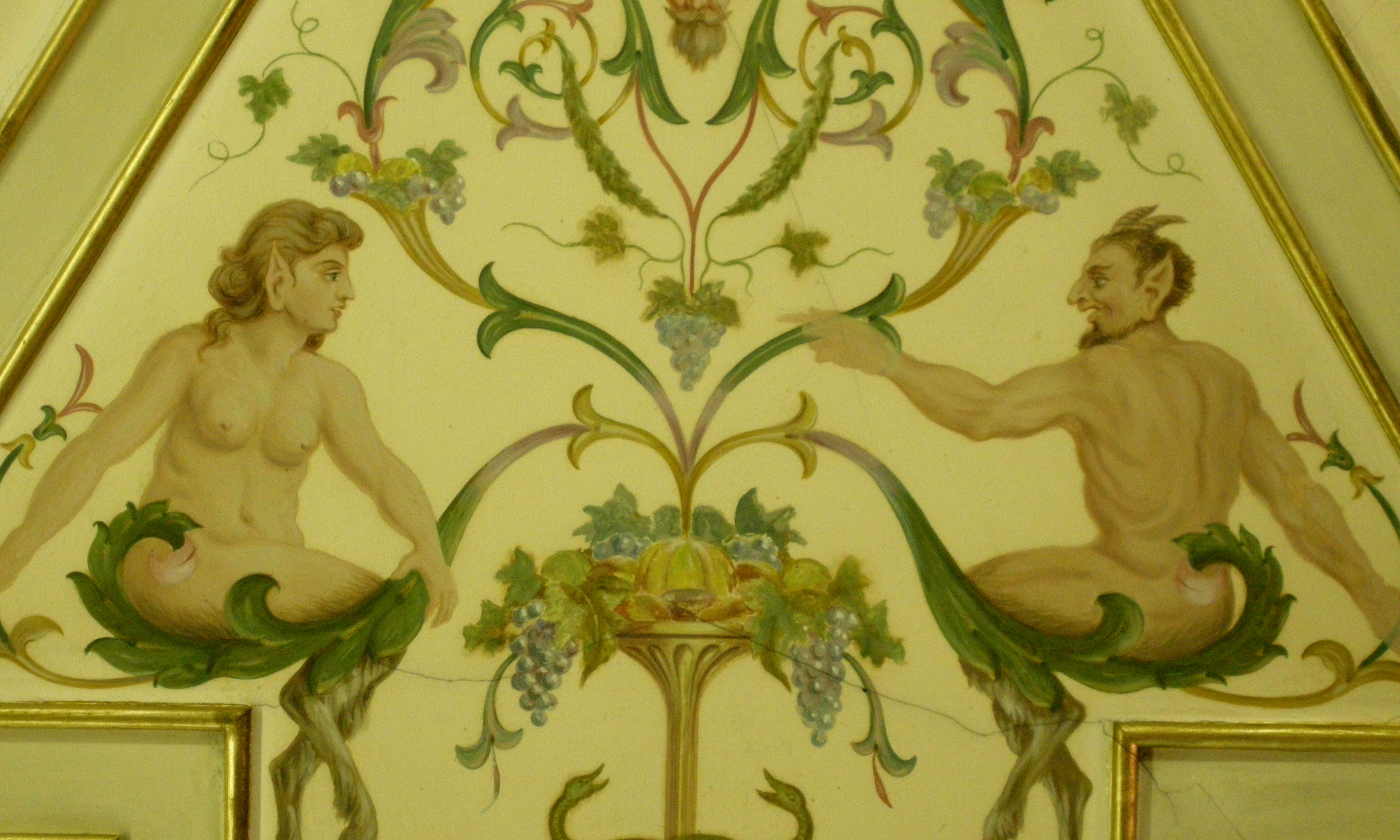 Bankfield Museum, Halifax, West Yorkshire, England. 53.43'.57".N; 1.51'.48".W.